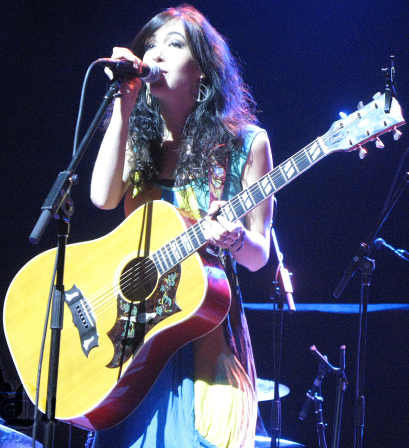 Verizon Tour 2008 05/24/2008 Ruth Eckerd Hall Clearwater, Florida